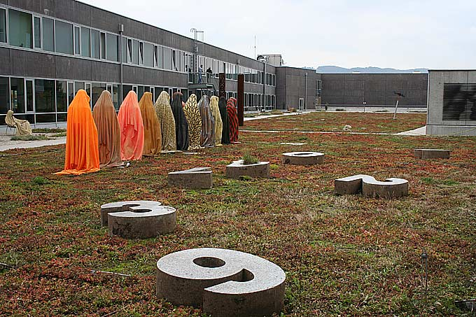 Numbers by Jonathan Borofsky, Skulpturenpark Artpark Linz, 2009